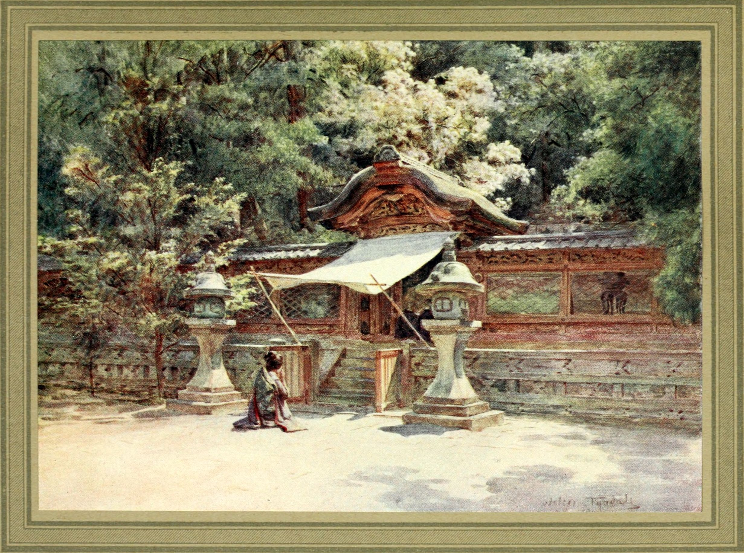 Temple Fence and Gate, Higashi Otani, Kyoto